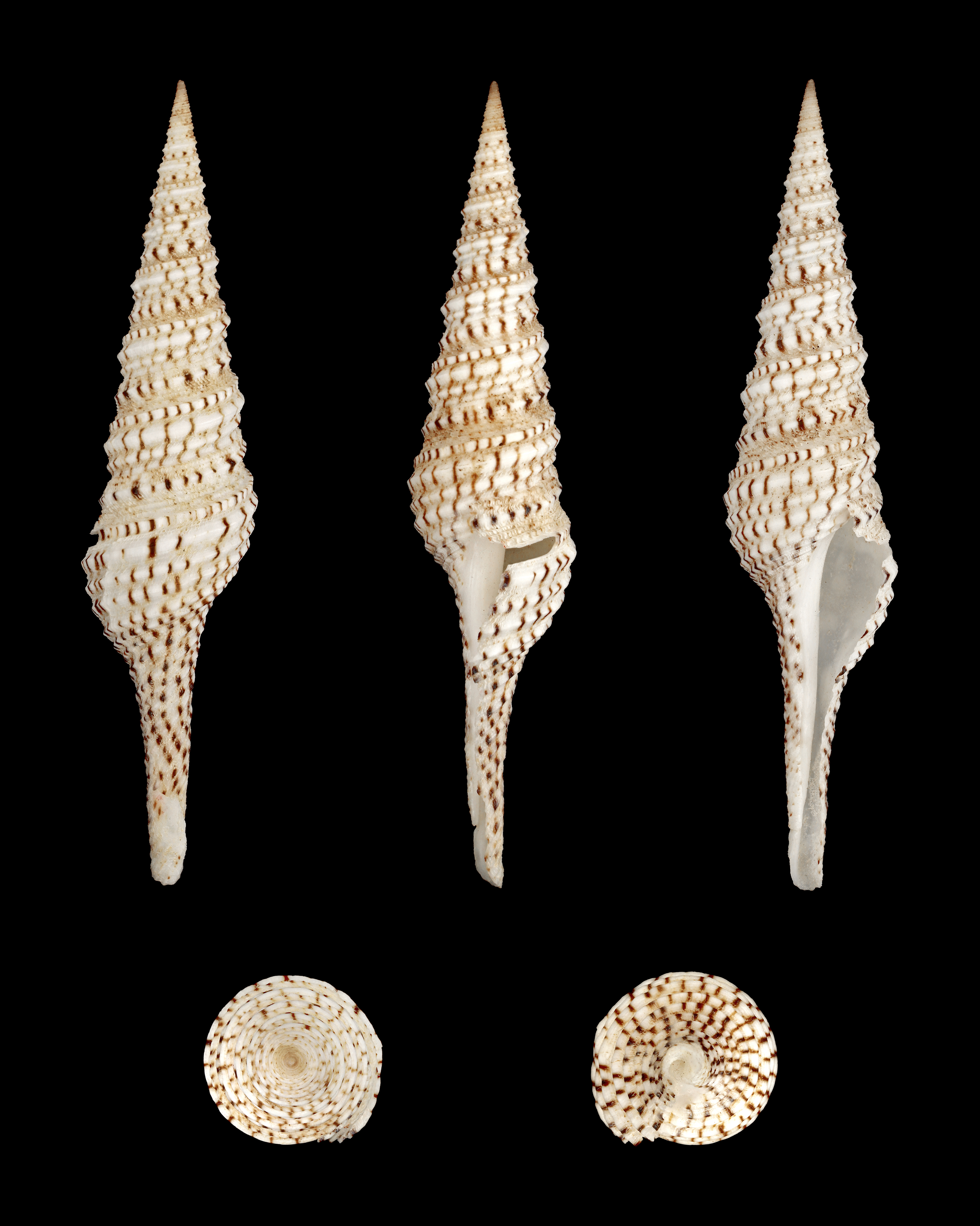 Supreme Turrid, Length 7.8 cm; Originating from Luzon, Philippines; Shell of own collection, therefore not geocoded. Dorsal, lateral (right side), ventral, back, and front view.